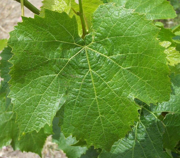 Petit Verdot leaf from Hedges Cellars in the Red Mountain AVA. Taken on Sunday, June 10th 2007 with a Kodak z650